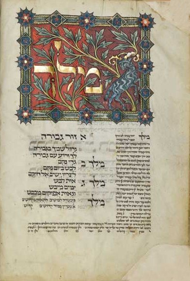 Tripartite Mahzor, Germany, early 14th century. Bodleian Libraries, University of Oxford, MS. Mich. 619, fol. 5b